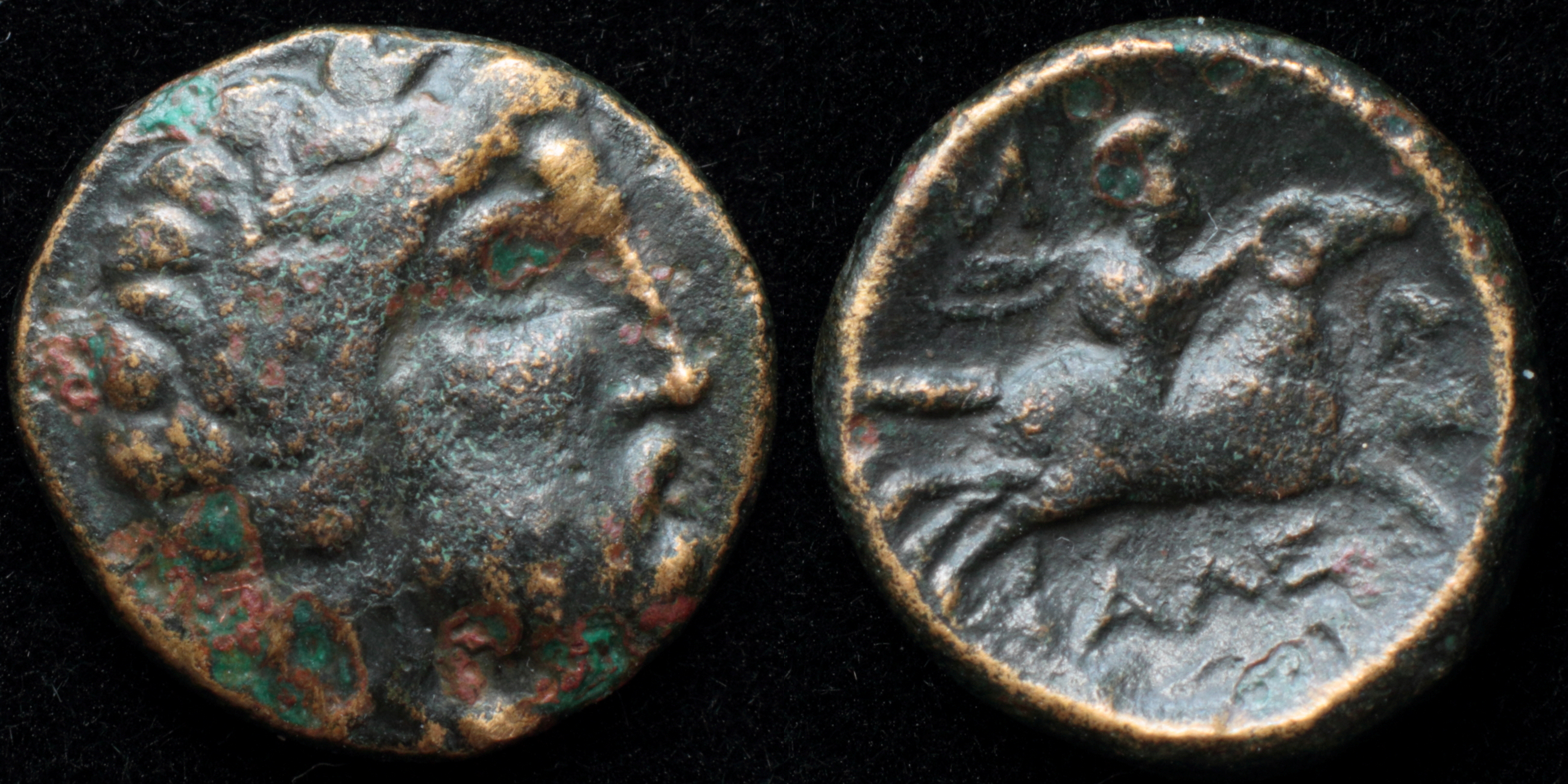 bronze dichalkon struck in Halos 3rd century BC obverse: laureate head of Zeus right reverse: Phrixos on ram flying right AΛEΩN ref.: BCD Thessaly II 86.4 corr., SNG Cop 64 var., Rogers 242 var.